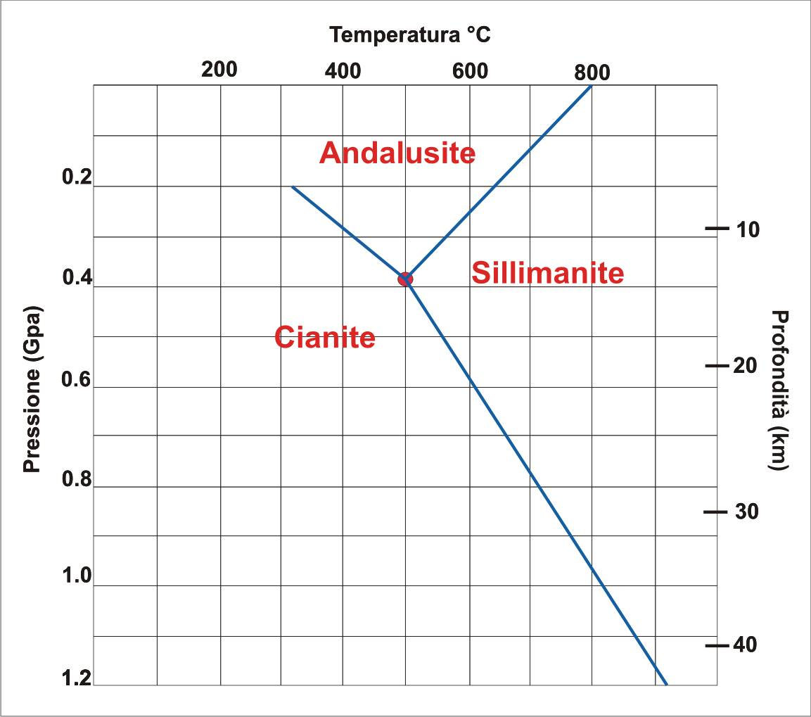 Diagram of the 3 aluminosilicate polymorphs